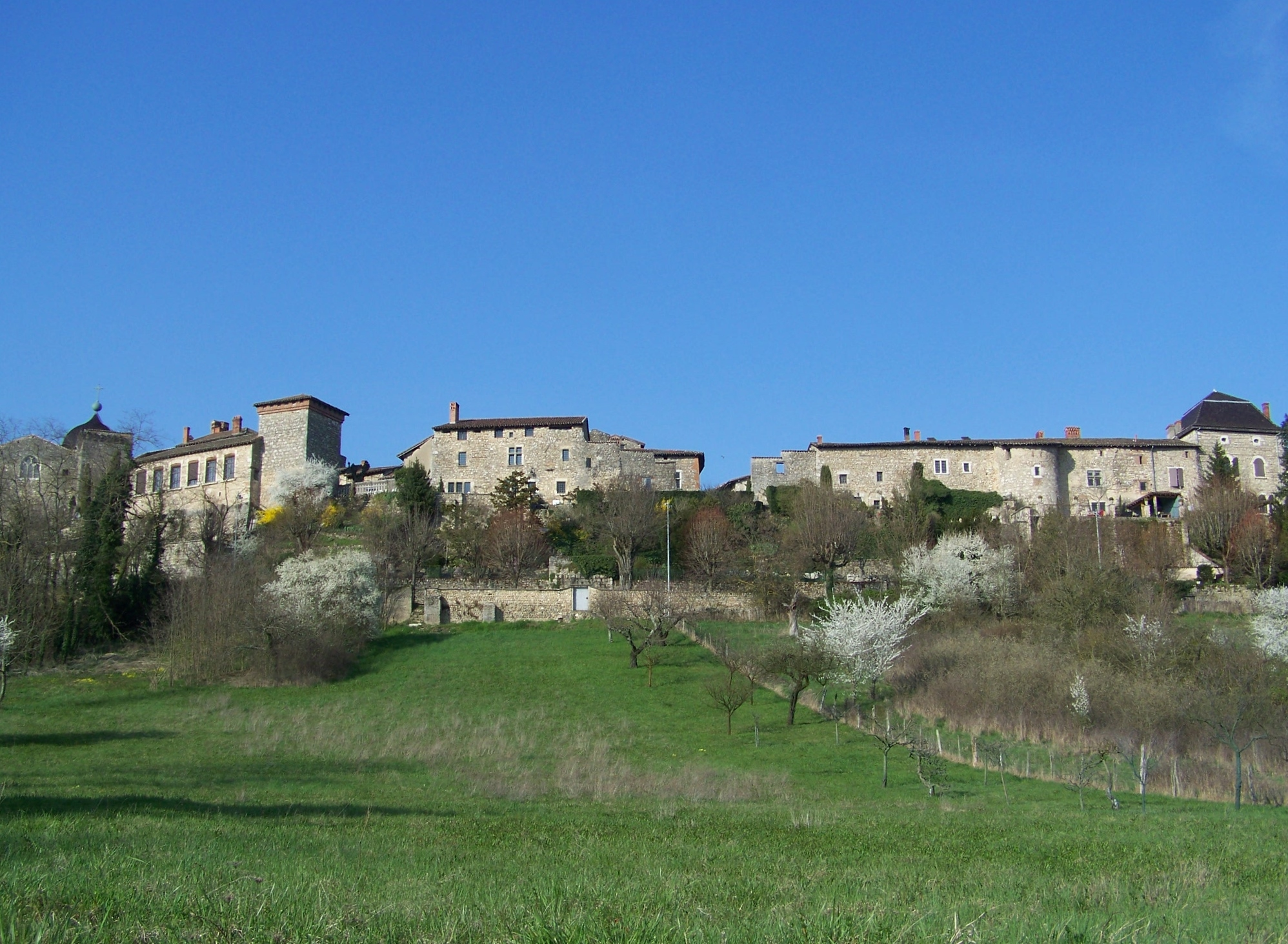 Exterior sight of the medieval city of Pérouges in Ain, France.